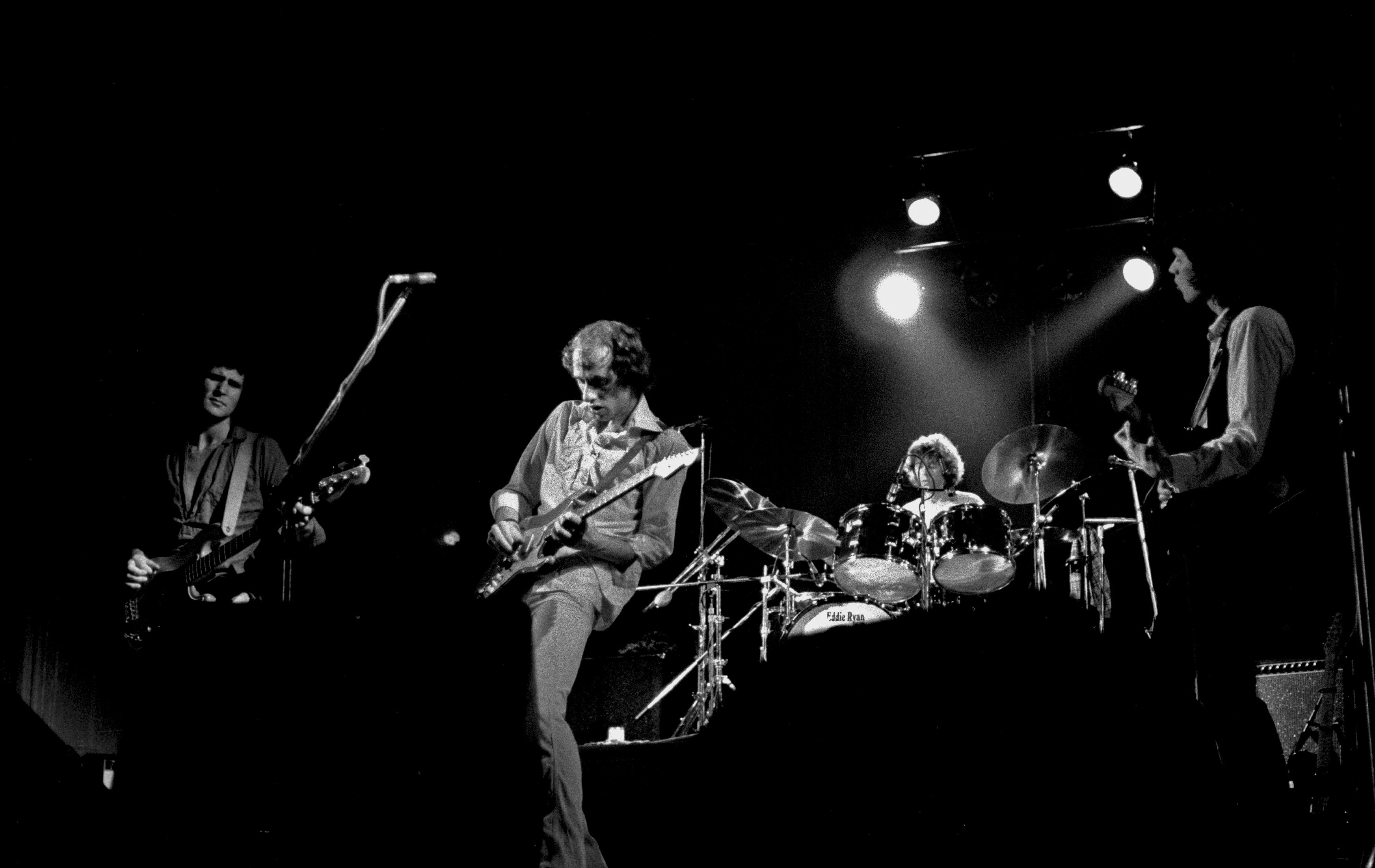 Dire Straits, 28 October 1978, Musikhalle Hamburg